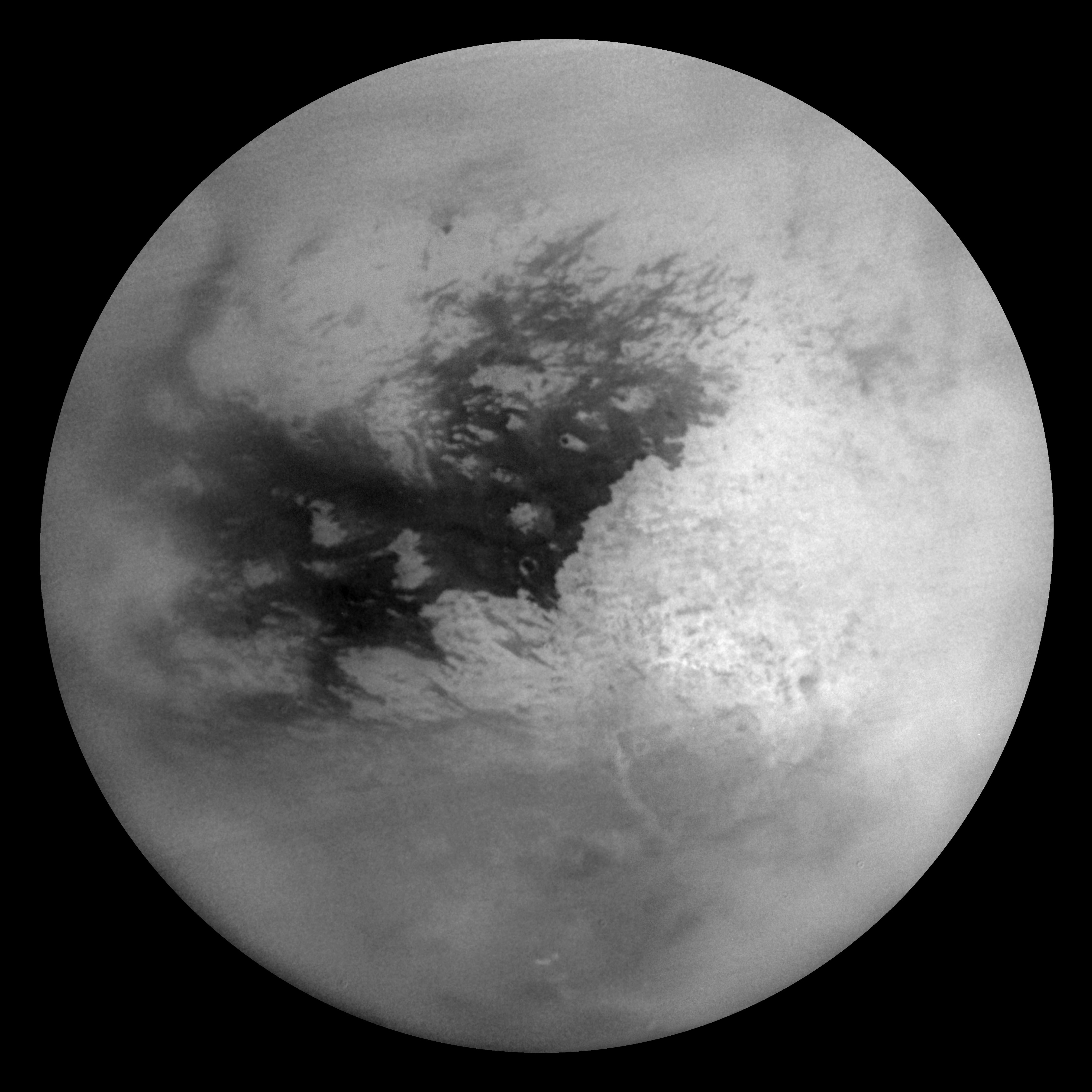 This mosaic of Titan's surface was made from 16 images. The individual images have been specially processed to remove effects of Titan's hazy atmosphere and to improve visibility of the surface near the terminator (the boundary between day and night). The images were taken with the Cassini spacecraft narrow angle camera through a filter sensitive to wavelengths of polarized infrared light and were acquired at distances ranging from approximately 226,000 to 242,000 kilometers (140,000 to 150,000 miles) from Titan.